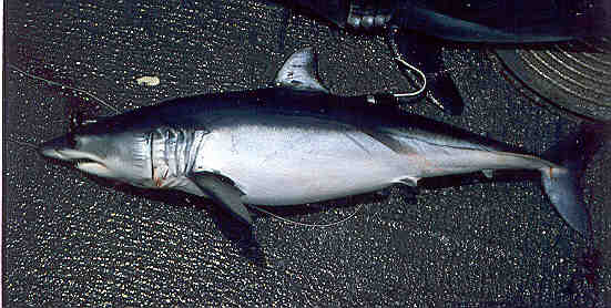 Shortfin mako shark (Isurus oxyrinchus)